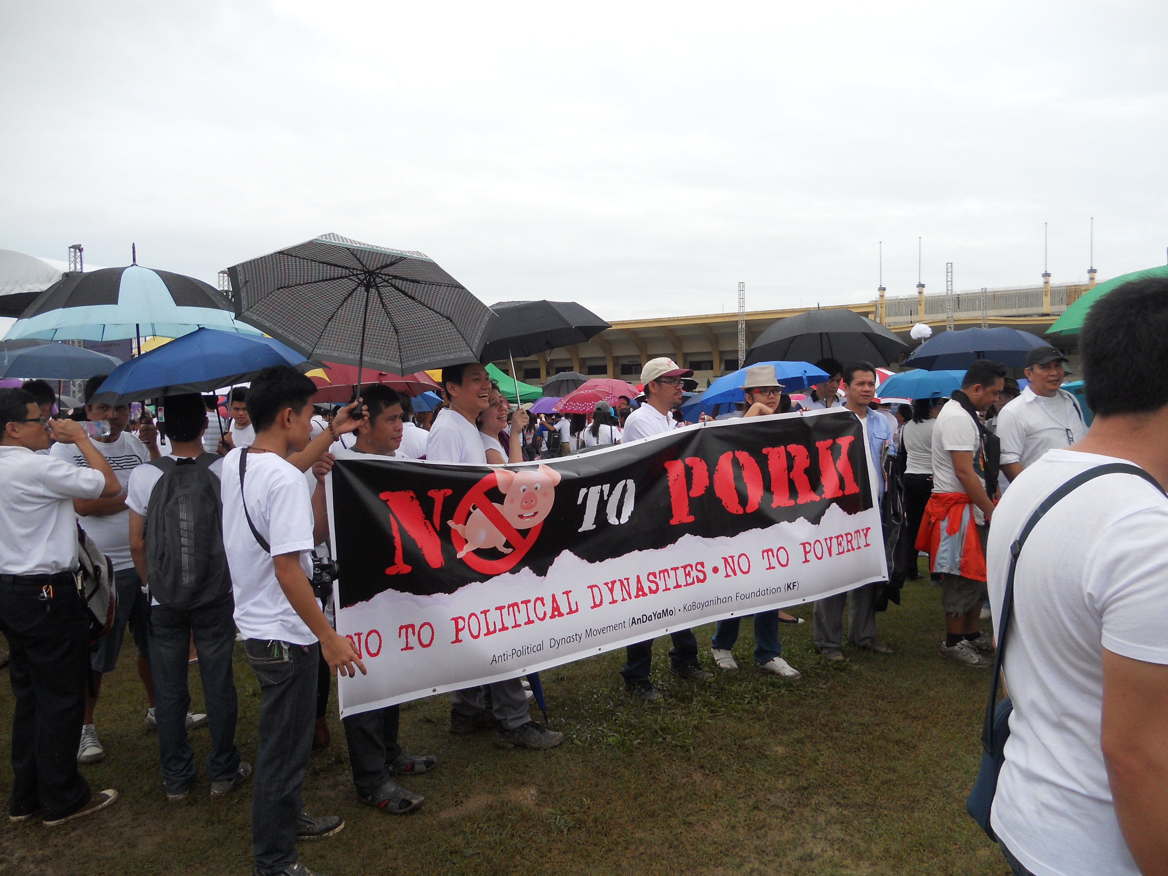 Million People March in Luneta against Pork Barrel